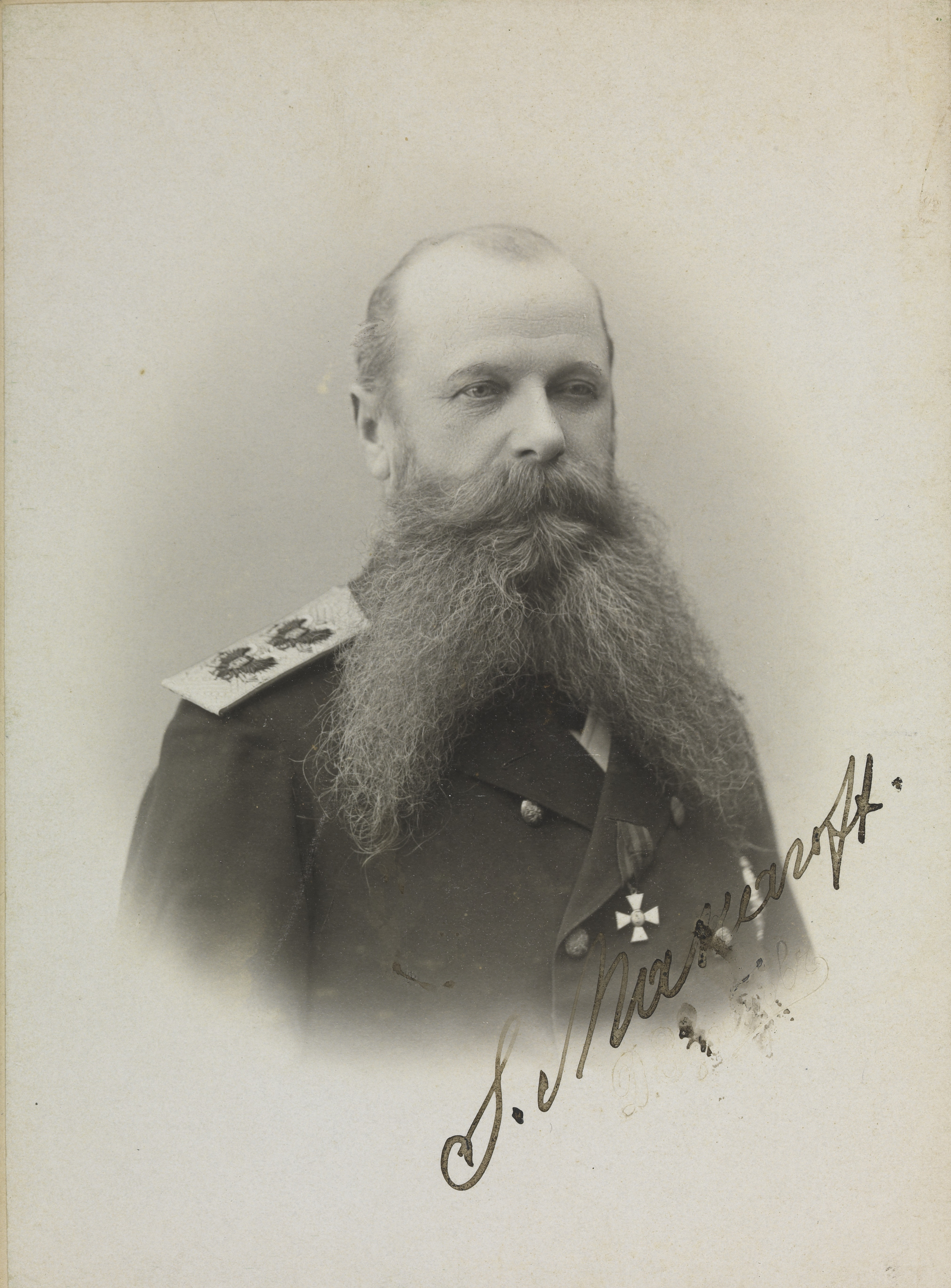 Stepan Osipovitsj Makarov, Russian naval officer, commander of the Russian fleet in the Pacific at the beginning of the war between Russia and Japan (1904). Oceanographer, arctic explorer, boatbuilder and vice-admiral (from 1896), he built the ice breaker Ermak for arctic travels. Introduced the outfitting of steamers with mine carrying boats, and was the first to use automatic (self driven) mine-torpedoes constructed by Robert Whitehead. Pioneer in torpedo defence against submarines. With dedication. (Leningrad).